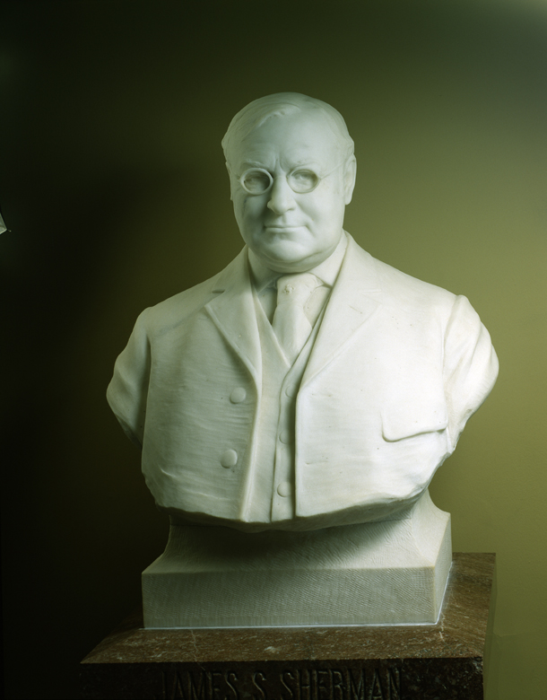 Bust, marble, of James S. Sherman by Bessie Potter Vonnoh, 1911; United States Senate Collection, Washington, D.C.; modeled 1910, carved 1911. Sculptor's full name: Bessie Onahotema Potter Vonnoh (1872-1955).